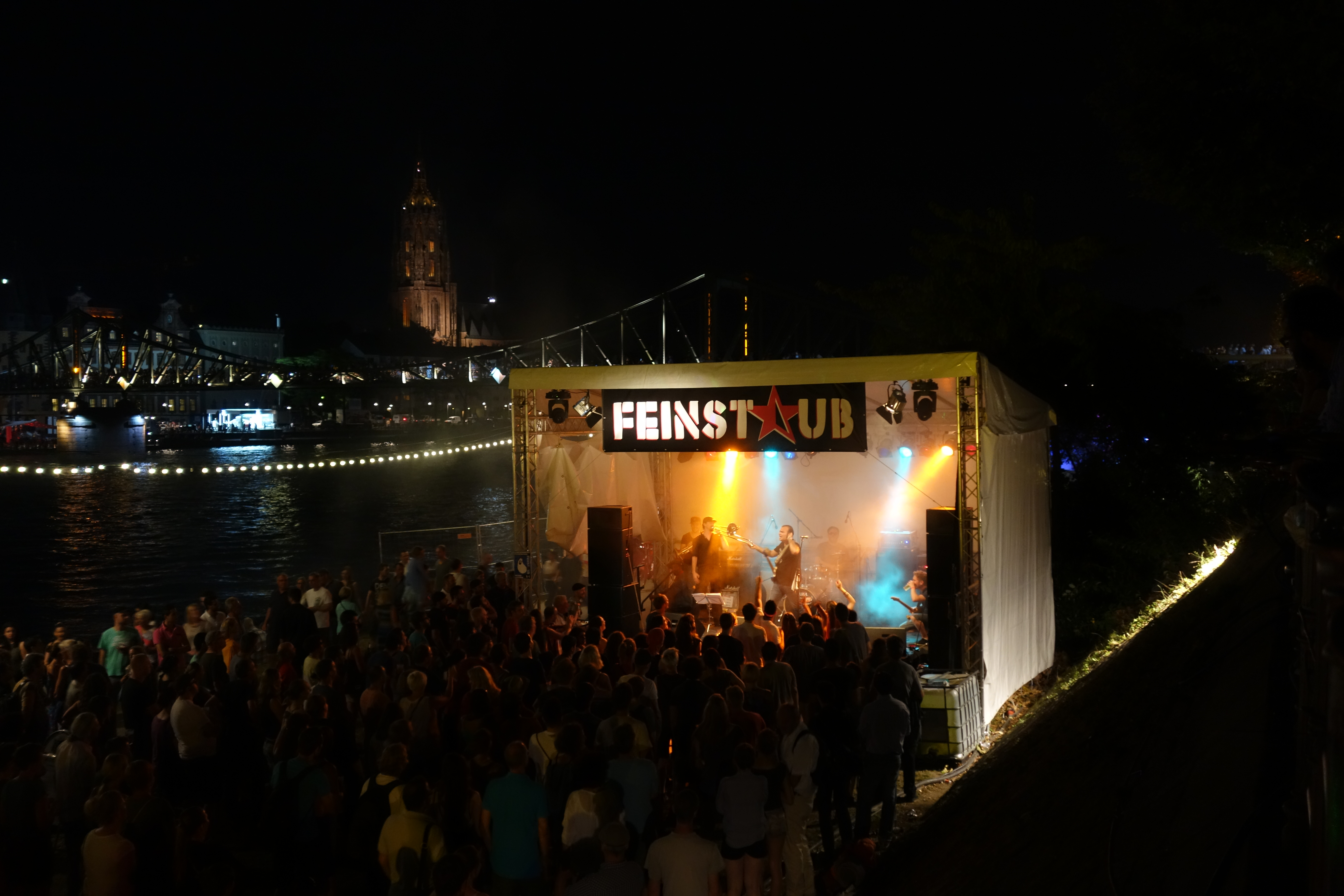 Frankfurt based band "Mate Power" live at Museumsuferfest Frankfurt, "Feinstaub"-stage, 28th August 2016. In the background "Eiserner Steg" bridge and Frankfurt Cathedral